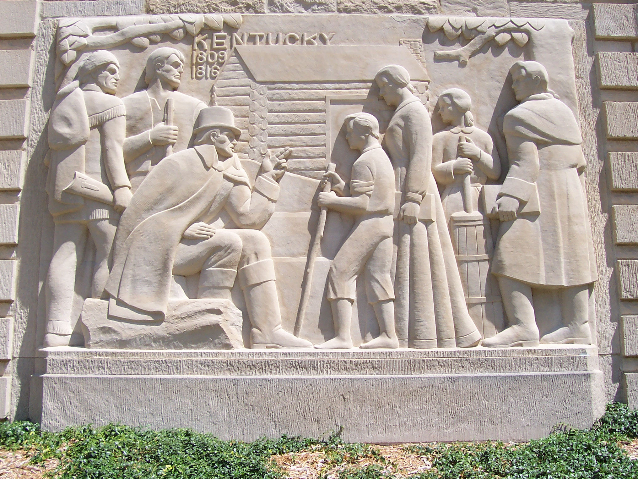 stone carving of lincoln at the lincoln boyhood memorial